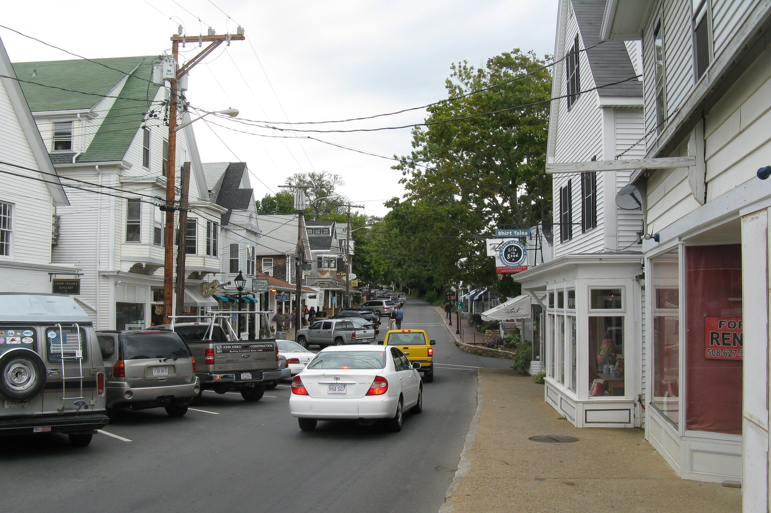 Main Street, Vineyard Haven Massachusetts